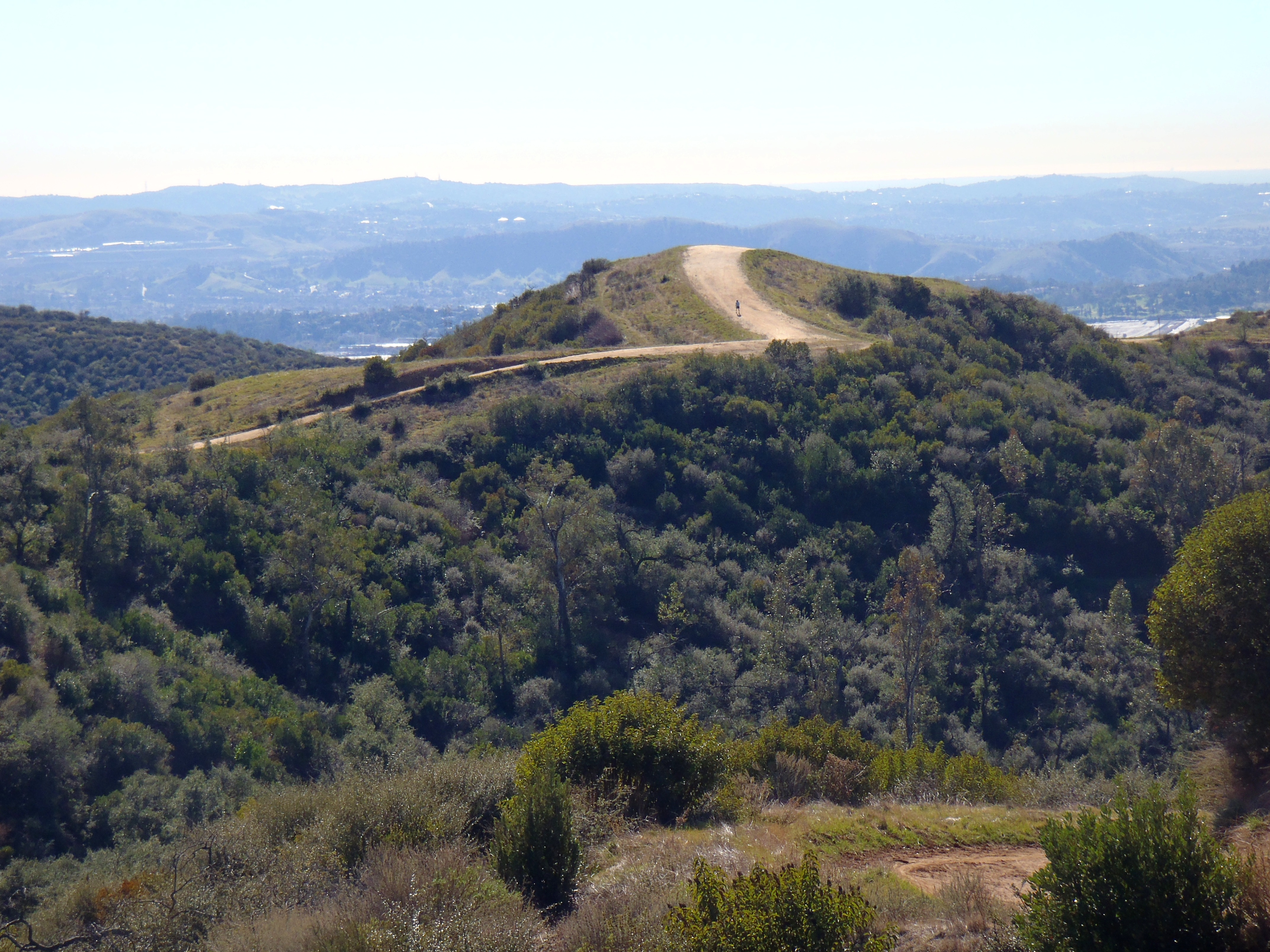 A view of a particularly steep and sinuous trail branching out of the Claremont Hills Wilderness Park and entering Marshall Canyon to the West. Most popular with mountain bikers, but still accessible to hikers. Claremont, CA.